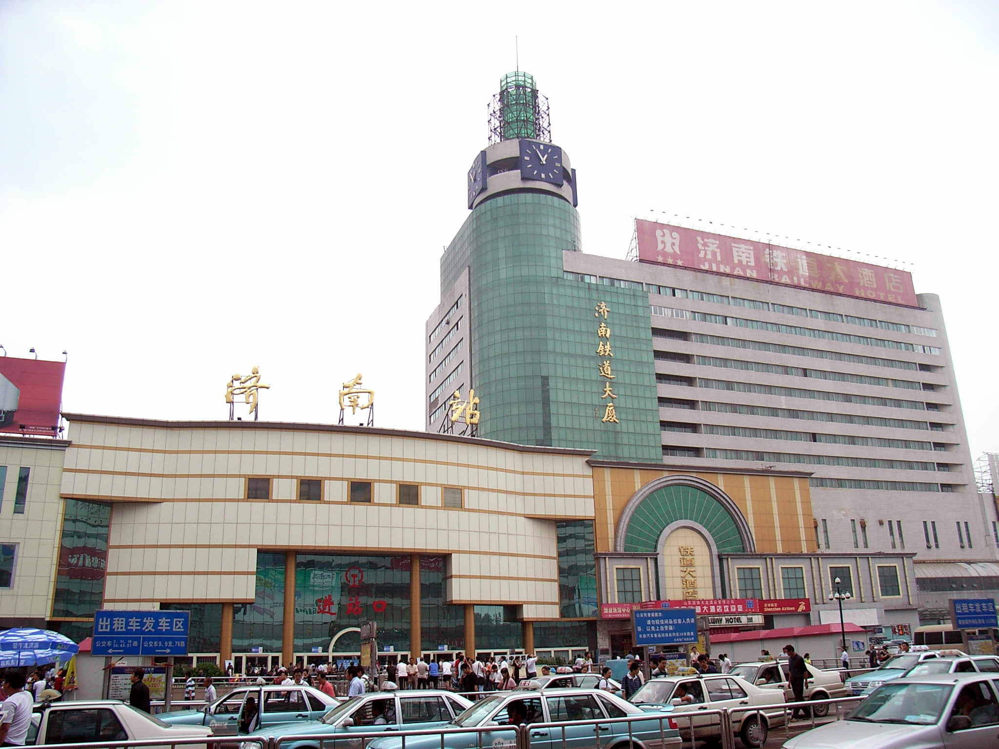 済南駅/济南火车站 Jinan Railway Station